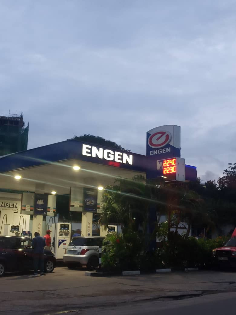 This is an image with the theme "Africa on the Move or Transport" from: Democratic Republic of the Congo